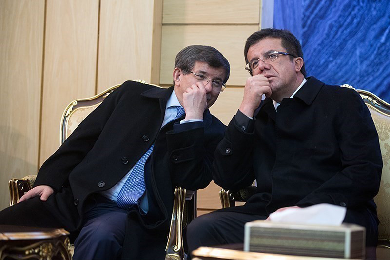 Turkish politicians Ahmet Davutoğlu (left) and Nihat Zeybekci)